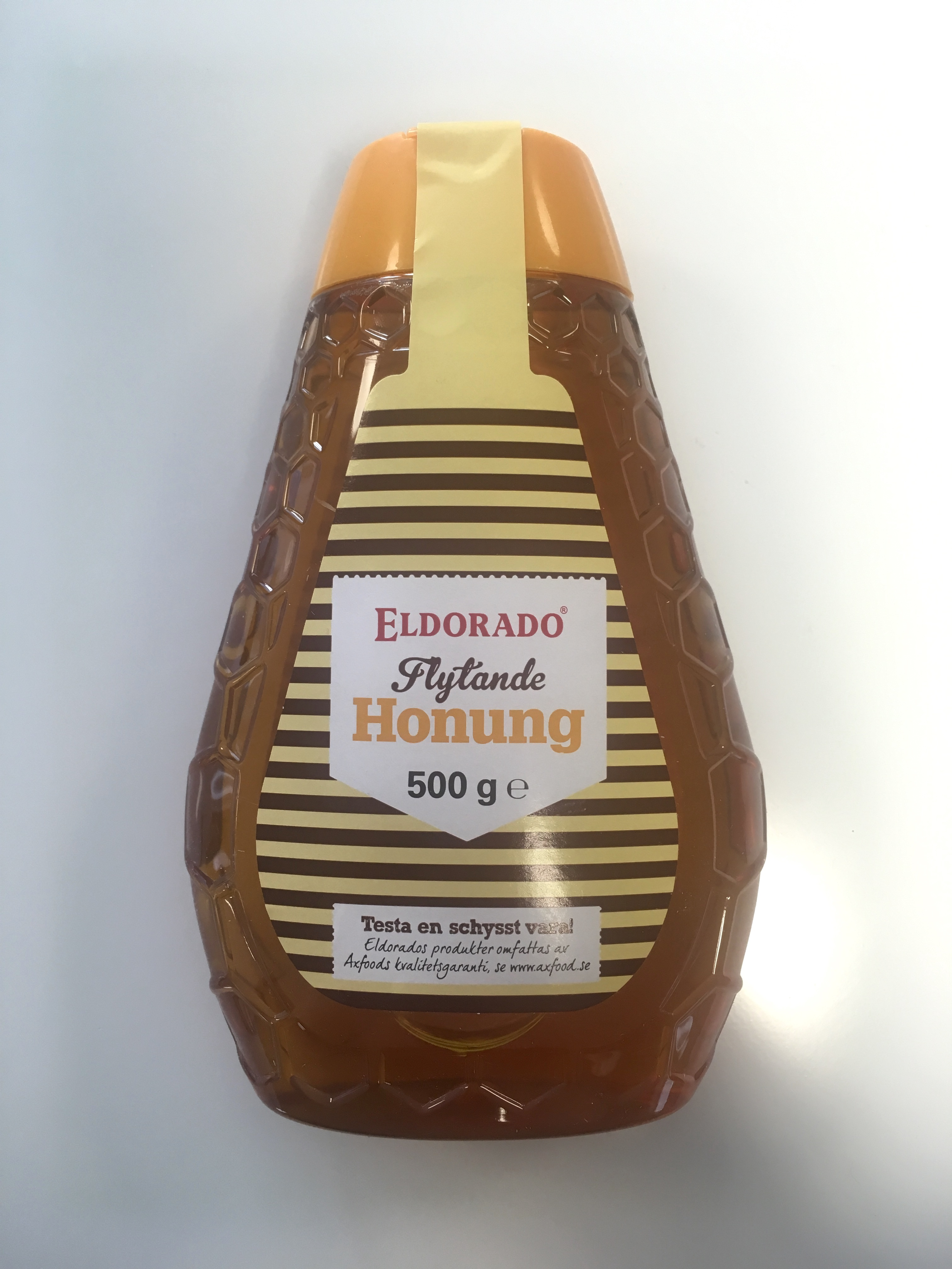 Eldorado_flytande_honung